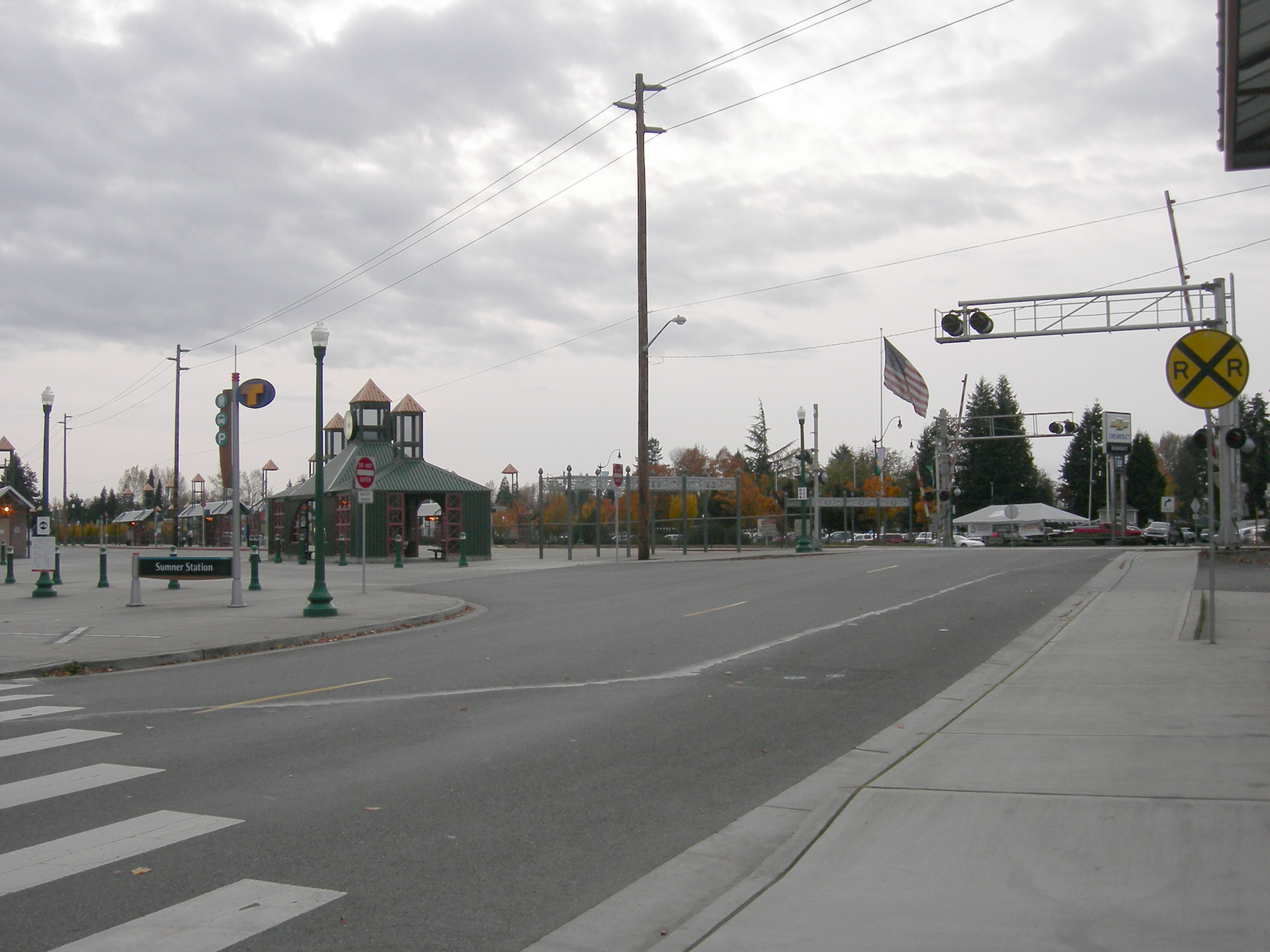 Ticketing machine for the Sounder commuter train, Sumner, Washington, USA.